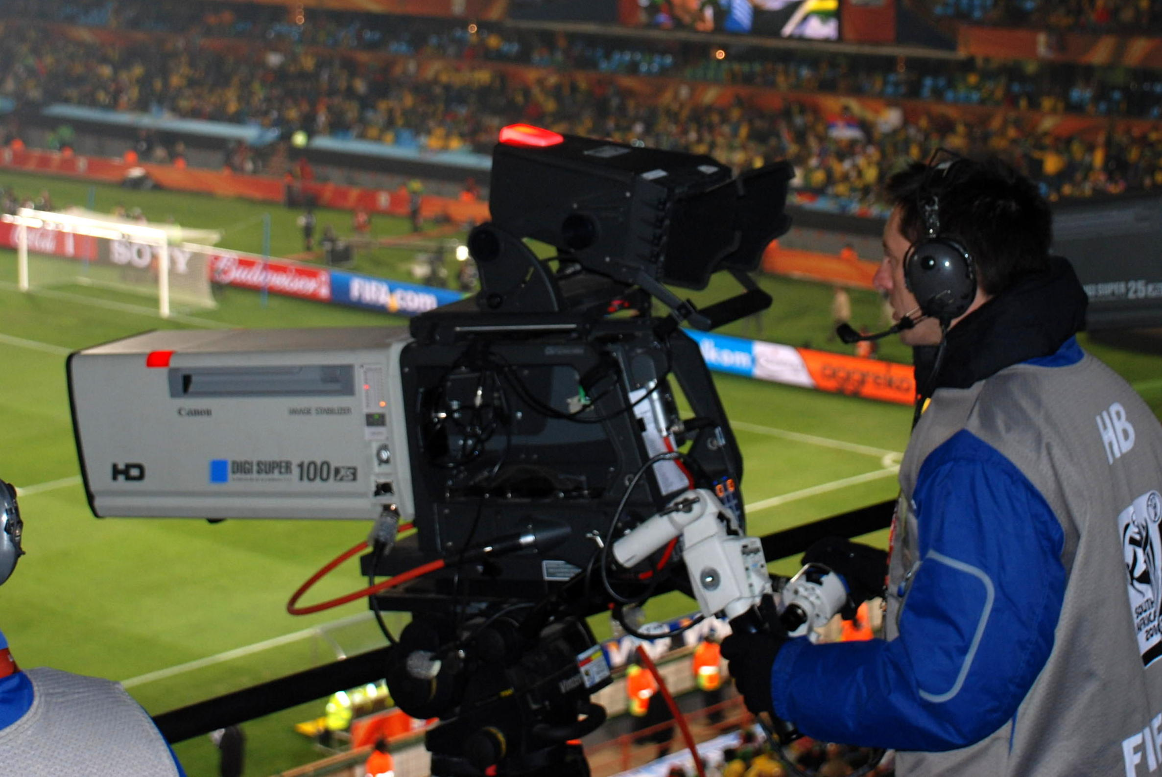 Camera 1 trained on the action prior to kick-off, South Africa v Uruguay